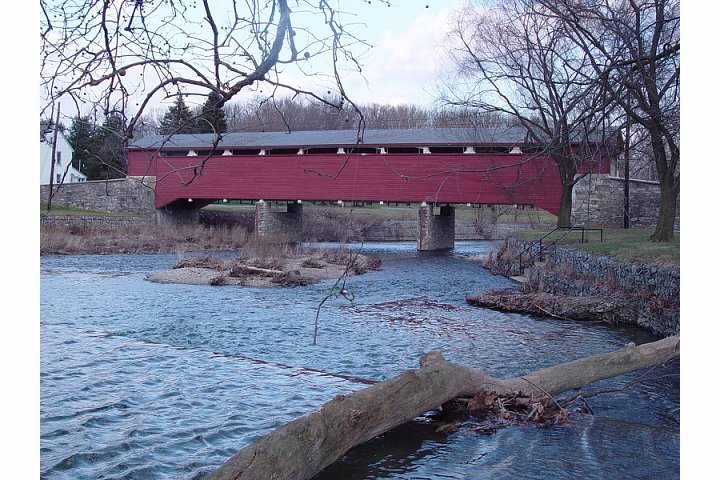 Wehr Covered Bridge